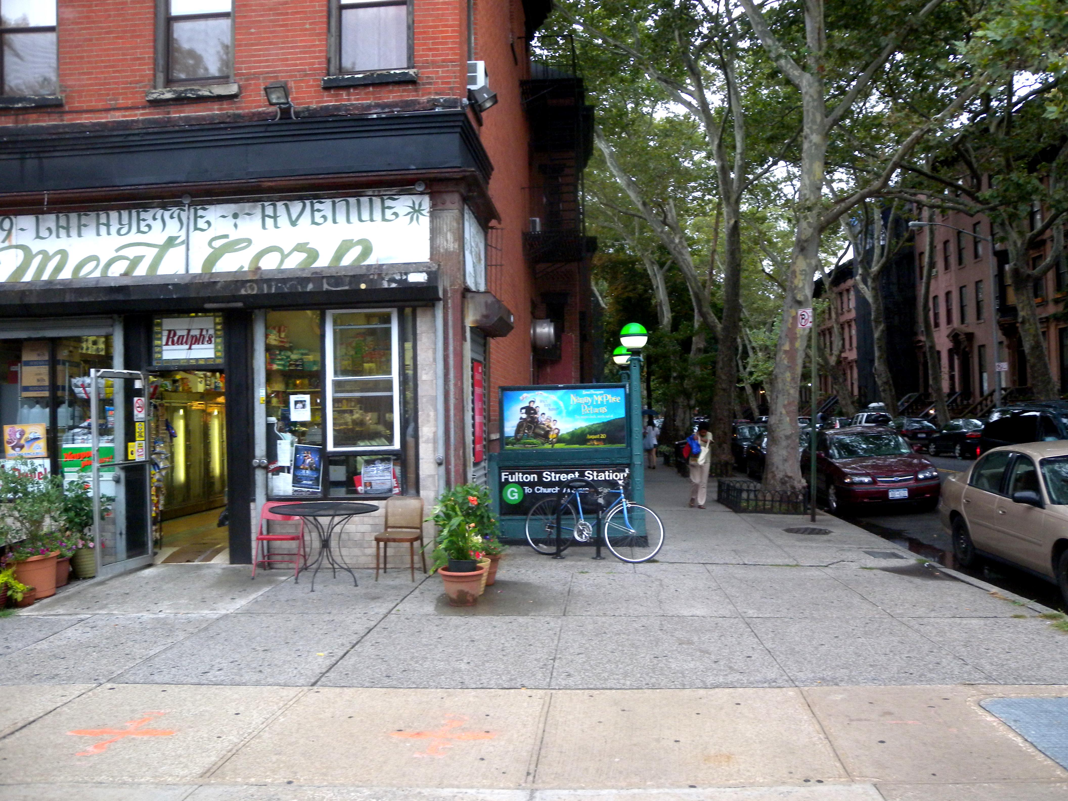 Looking north across Lafayette at stair for Fulton Street station on a rainy afternoon.